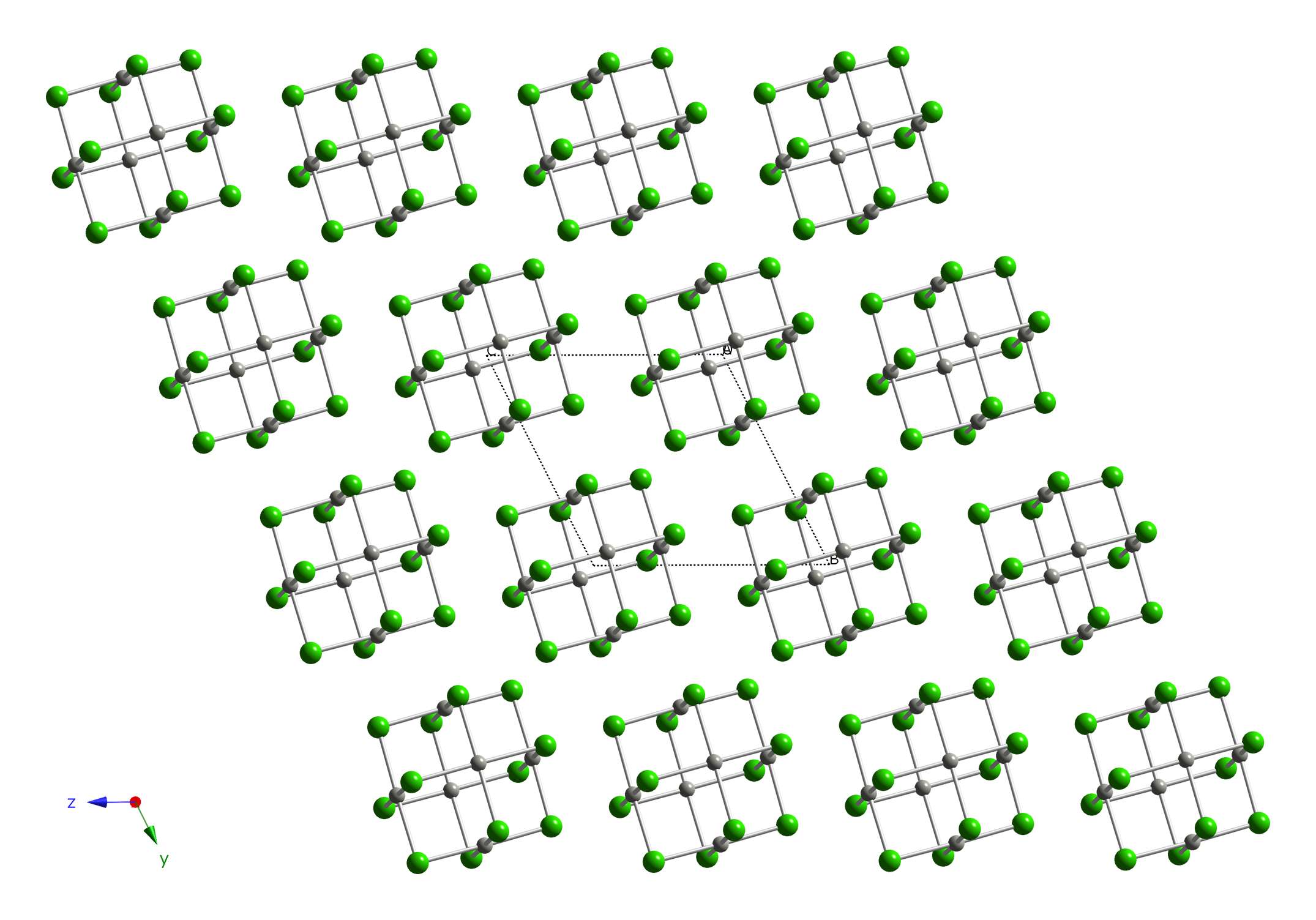 Ball-and-stick model of part of the crystal structure of the beta polymorph of palladium(II) chloride, PdCl2. Colour code: Palladium, Pd: grey Chlorine, Cl: green Crystal structure from Angew. Chem. Int. Ed. (1996) 35, 1331–1333. Model constructed and image generated in CrystalMaker 8.2.